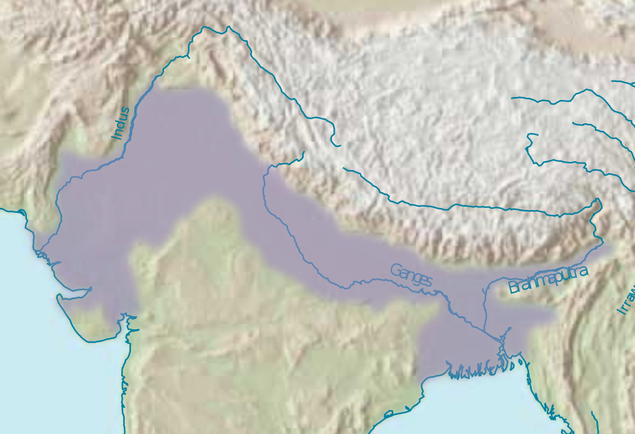 schematic map of the Indo-Gangetic Plain